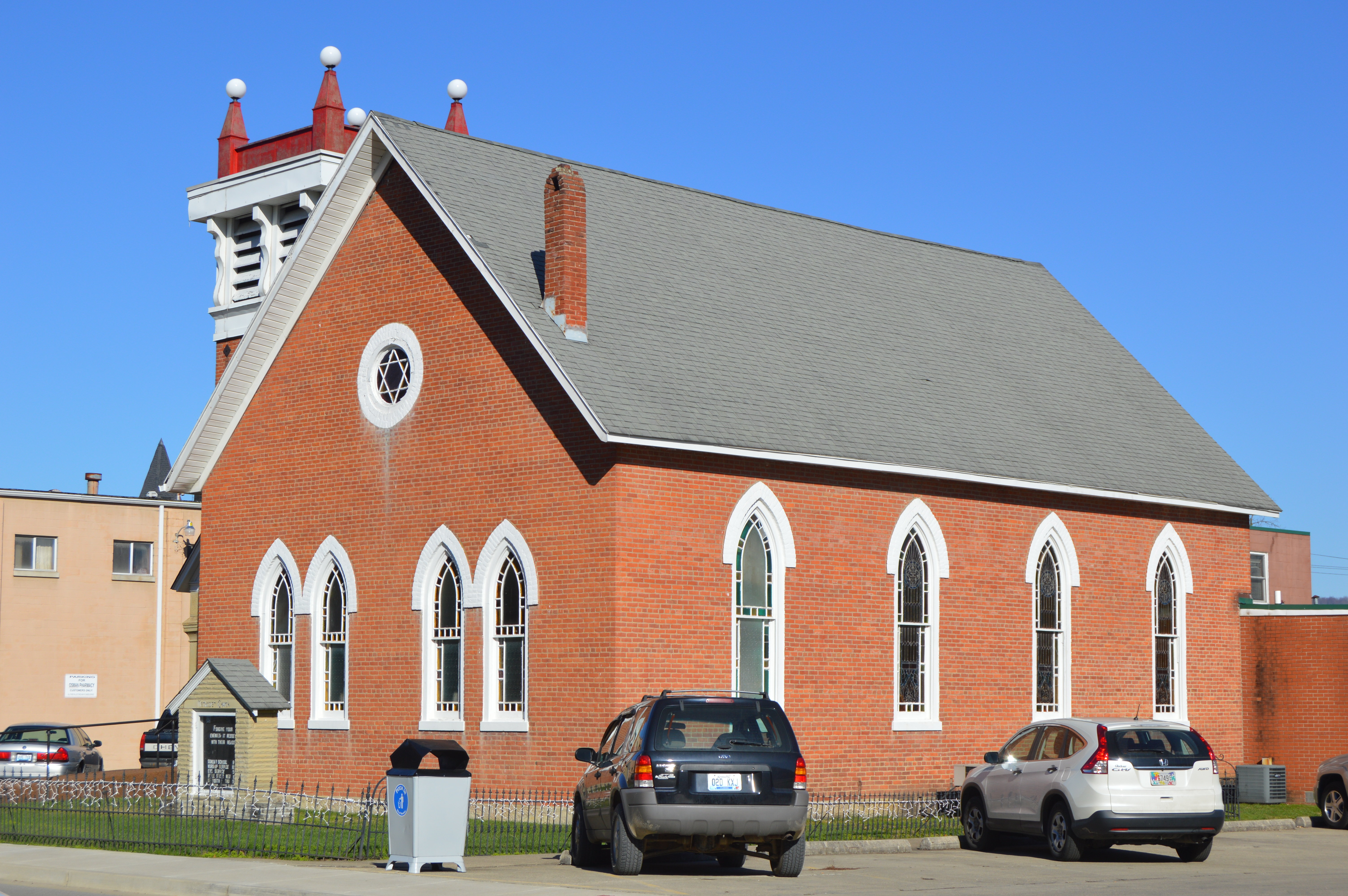 Front and southeastern side of the Vanceburg United Methodist Church, located at 111 Second Street (Kentucky Route 2525) in Vanceburg, Kentucky, United States.